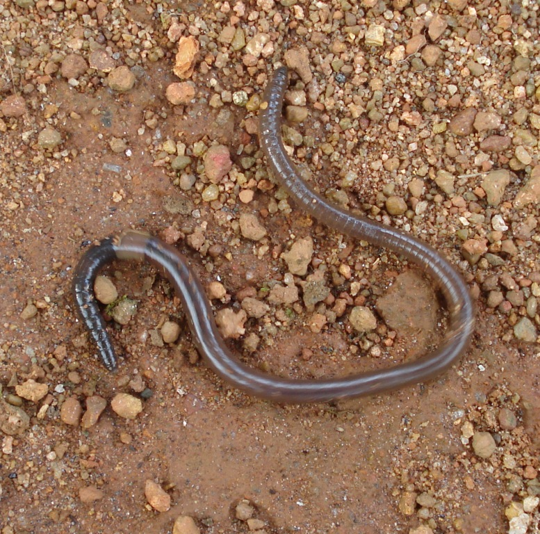 Earthworm